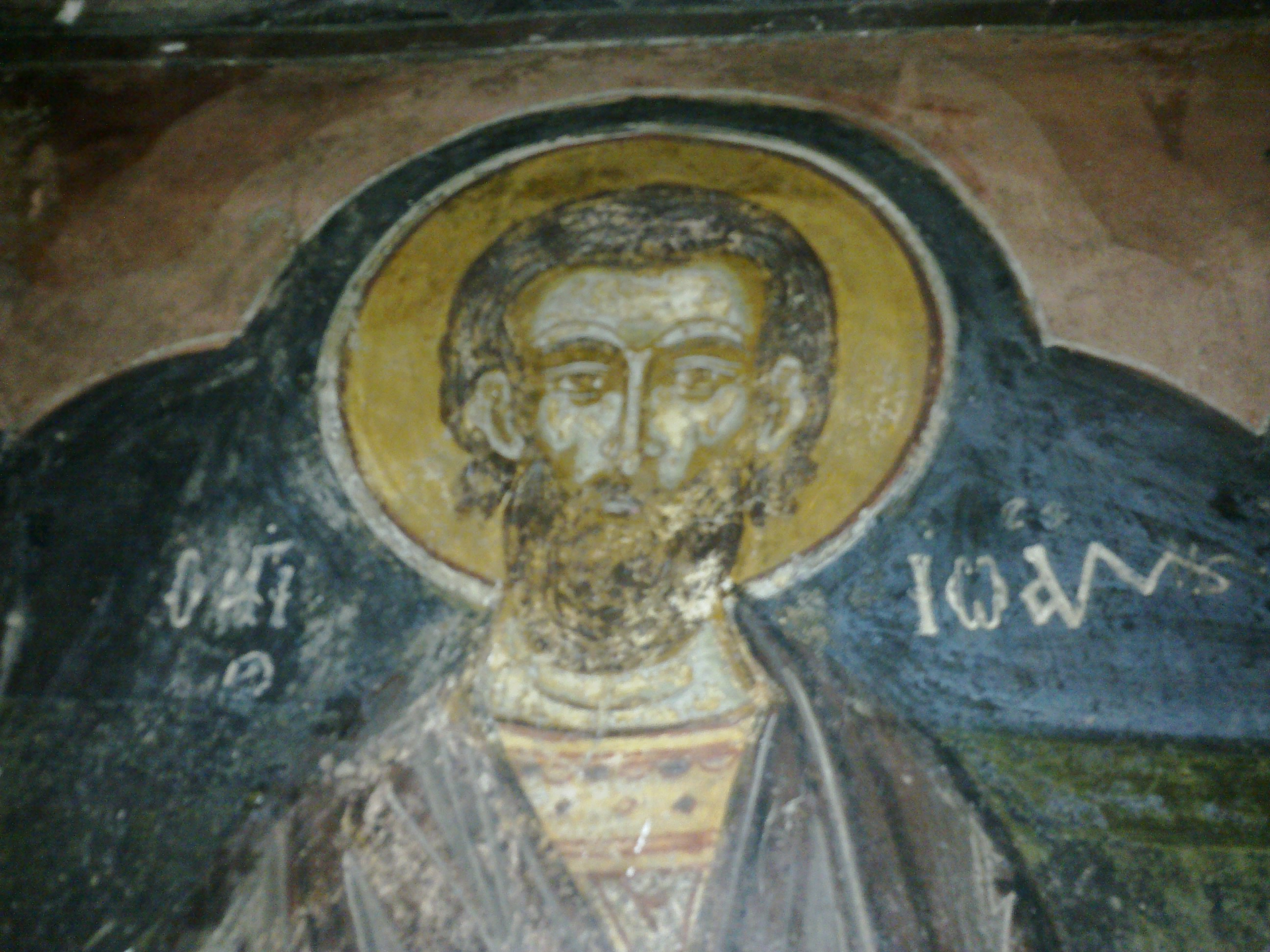 Pirgi Katranitsa St Demetrius Church St John